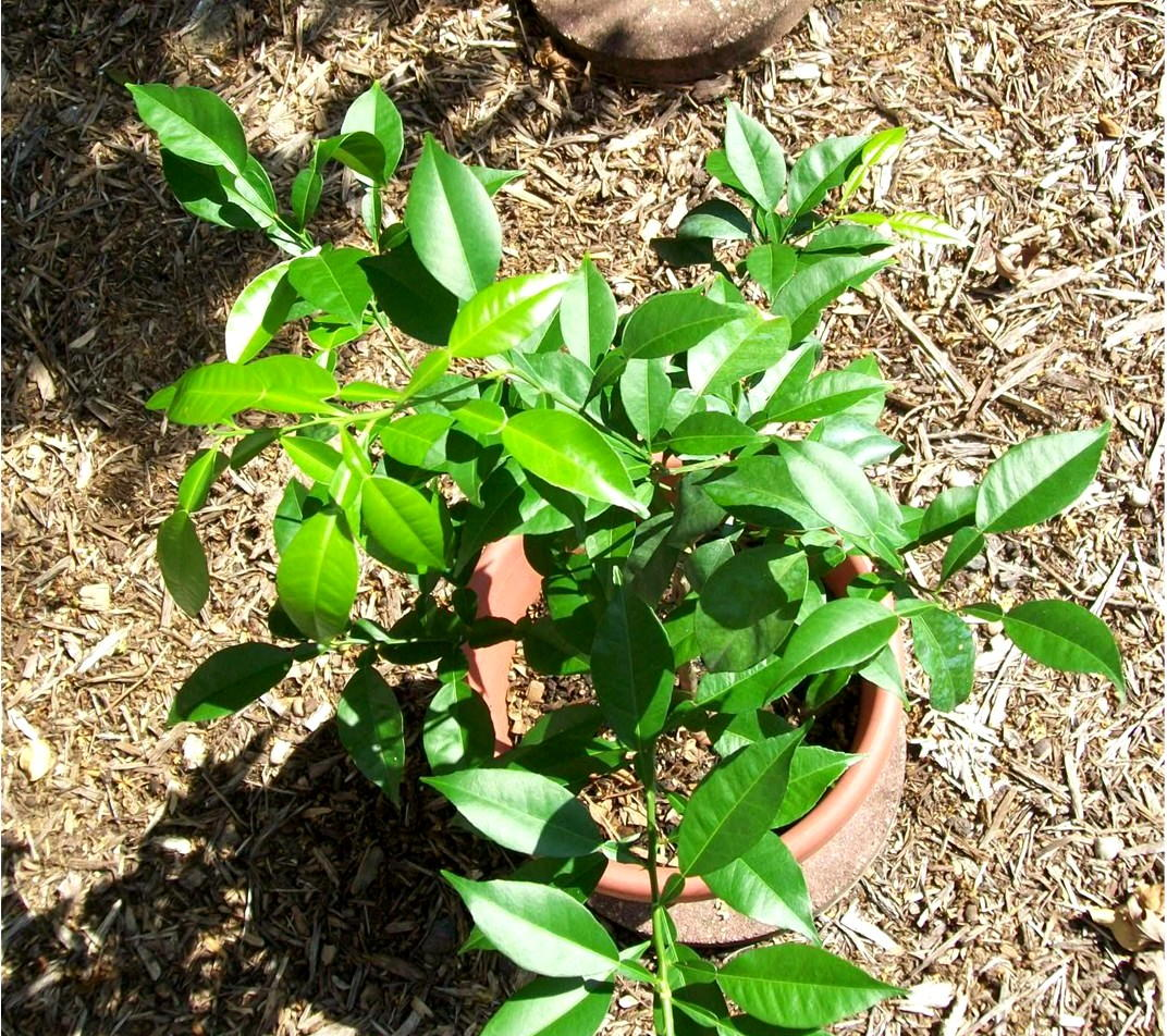 4 year old Yuzu hybrid citrus, Chapel Hill, North Carolina